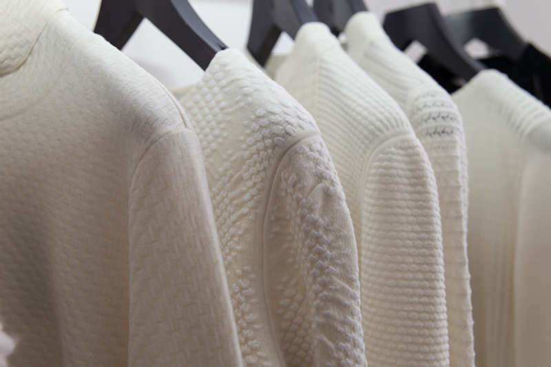 Pringle of Scotland - Autumn / Winter 2013 Collection. Luxury knitwear.